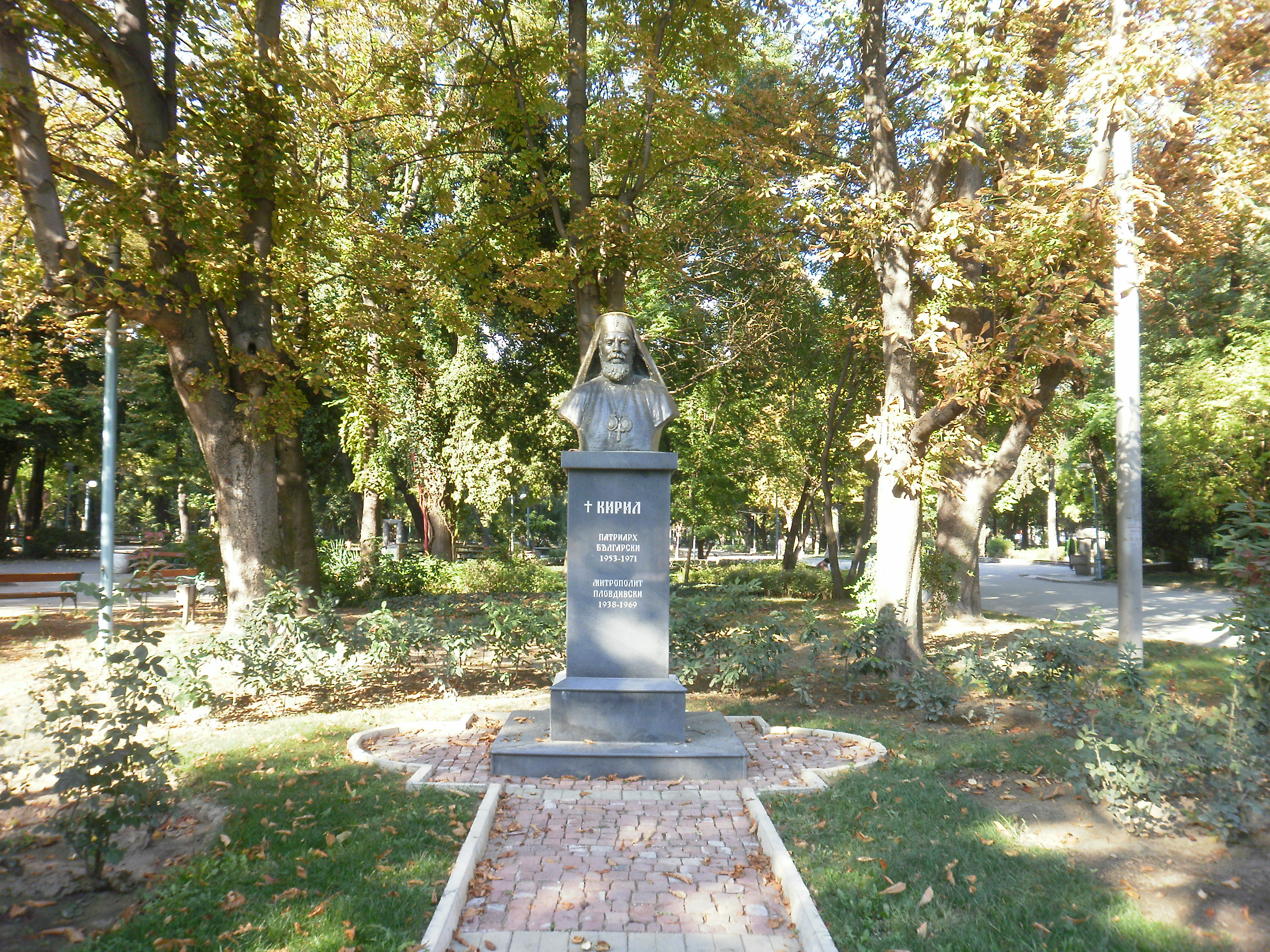 Patriarch Cyril Monument, Plovdiv, Bulgaria.